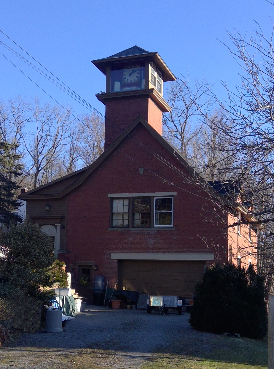 The Village of Wyoming Fire Tower was built in 1902 with the Village Hall. It operated as the village fire station for many decades.